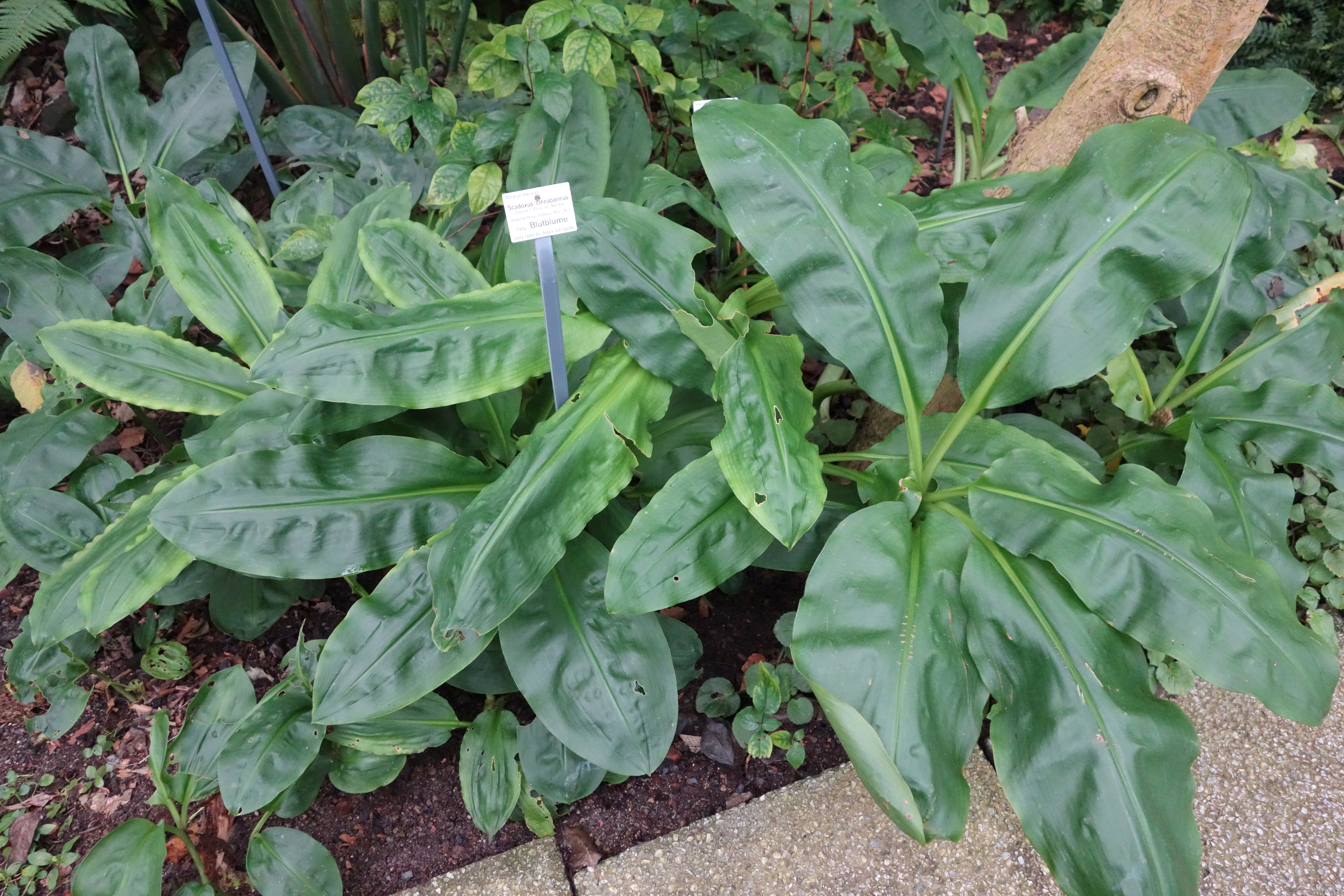 Botanical specimen in the Botanischer Garten, Dresden, Germany.